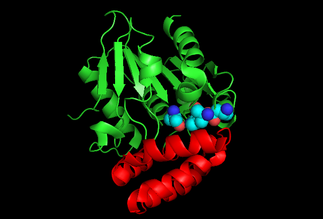 A monomer of SHCHC Synthase with Catalytic Triad colored cyan and the Alpha Helix Cap colored in red.